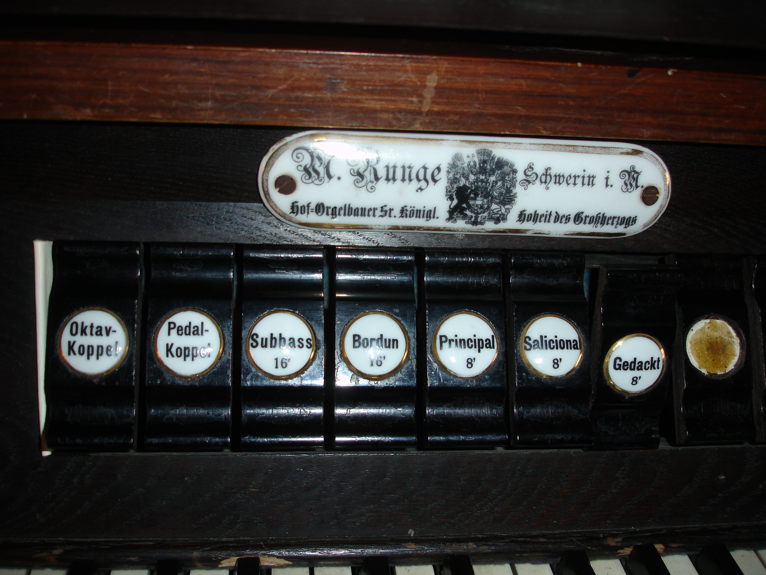 Church in Groß Brütz, district Nordwestmecklenburg, Mecklenburg-Vorpommern, Germany